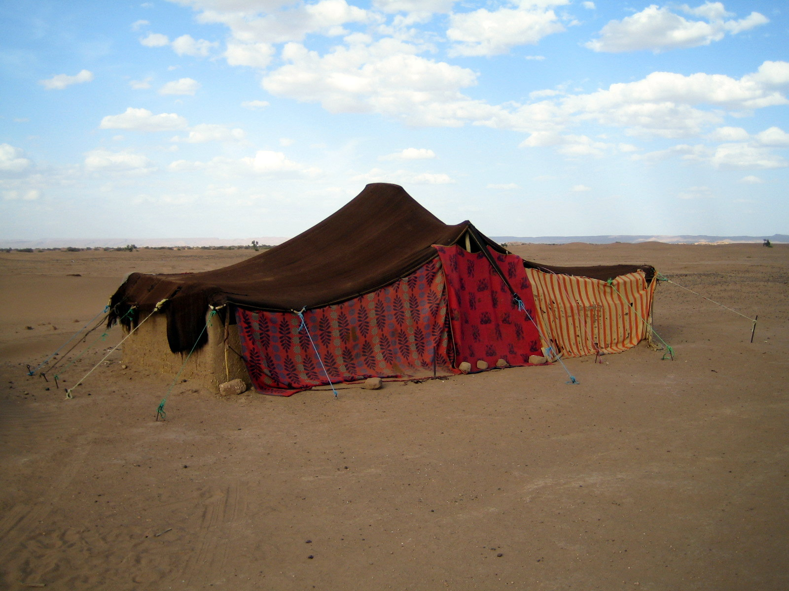 This is a FREE photo! Yes, all the photos in my gallery are free! :) You can download it at full resolution (check the “all sizes” option) and do whatever you want with it: share it, adapt it and/or combine it with other material and distribute the resulting works. Please give photo credits to “Carlos ZGZ” and put a link to this page. I’ll be very happy to know that this photo has been useful to someone, so don’t hesitate to tell me about your use (and I will place here a link to it if you wish)! __ ¡Esta es una foto LIBRE! ¡Sí, todas las fotos de mi galería son libres! :) Puedes descargártela en plena resolución (usa la opción “all sizes”) y hacer lo que quieras con ella: compartirla tal cual, modificarla a tu gusto y/o combinarla con otro material y distribuir el resultado. Por favor, si utilizas esta foto dale el crédito a “Carlos ZGZ” y coloca un enlace a esta página Me hace mucha ilusión saber que una de mis fotos le ha servido a alguien. Así que si es tu caso, ¡no dudes en decírmelo! (y si quieres, pondré un enlace a tu proyecto aquí).